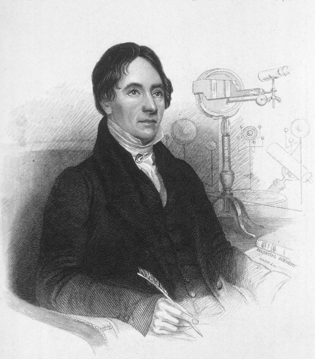 Reverend Thomas Dick (1774 - 1857)